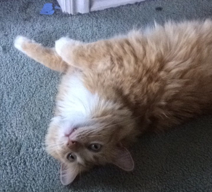 Long haired cat, rolled over on its side.